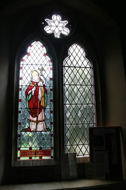 Stephen Langton window Memorial window to Langton-by-Wragby's most famous son and war memorial to the eight men of the parish who lost their lives in the Great War 1914-18